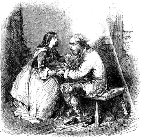 A Tale of Two Cities, Dr Manette and Lucie being reunited at Defarge's wine-shop in Faubourg Saint-Antoine (John McLenan) "He took her hair into his hand again, and looked closely at it." John McLenan 1859 Dickens's A Tale of Two Cities, Book I, Chapter VI, "The Shoemaker" Harper's Weekly (28 May 1859): 348. This text appeared in the UK in All the Year Round on 21 May 1859.